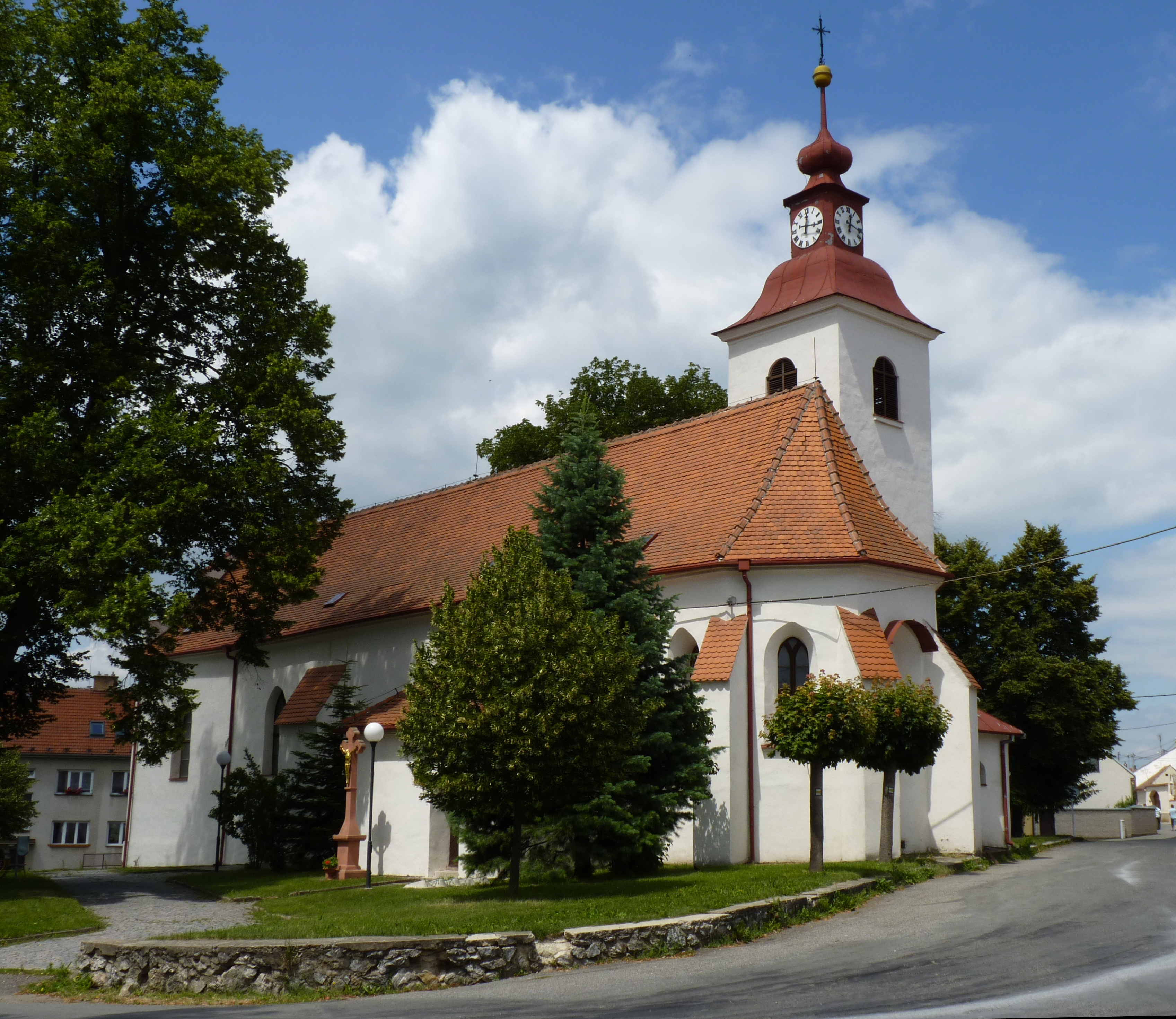 Čebín, Church of Saint George. Brno-Country District, South Moravian Region, Czech Republic Project: Chráněná území